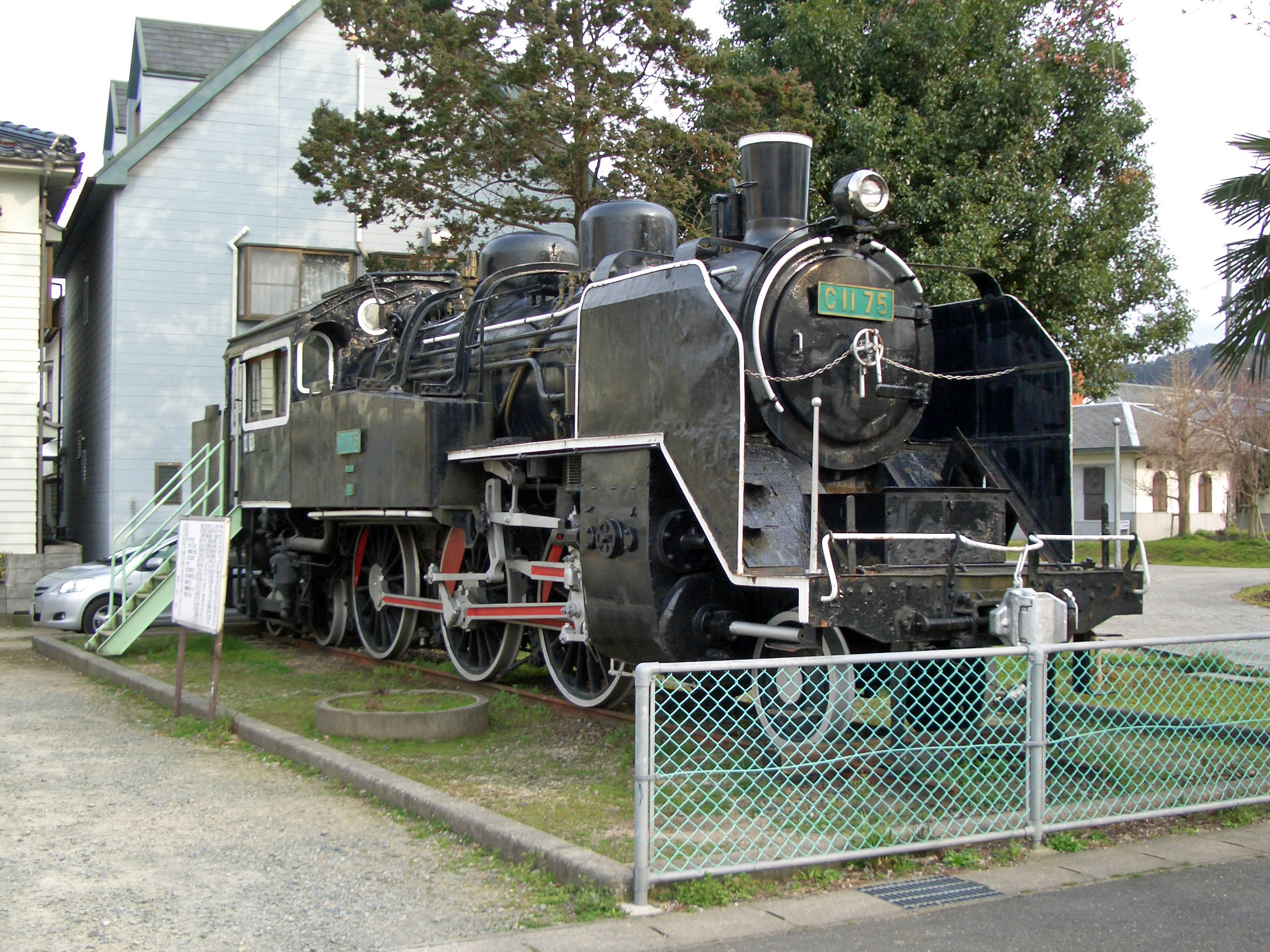 Steam Locomotive C11-75 (Kurayoshi, Tottori Prefecture, Japan)